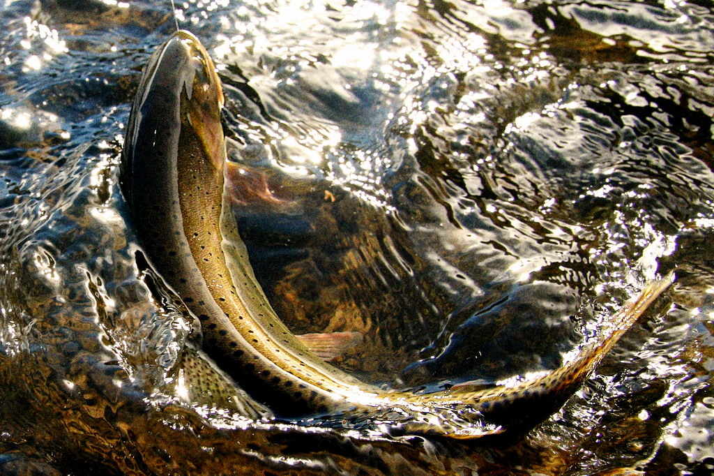 A cutthroat trout (most likely a Bonneville cutthroat trout) caught on the Weber River of Utah. Photo by Corey Kruitbosch, File is available online at